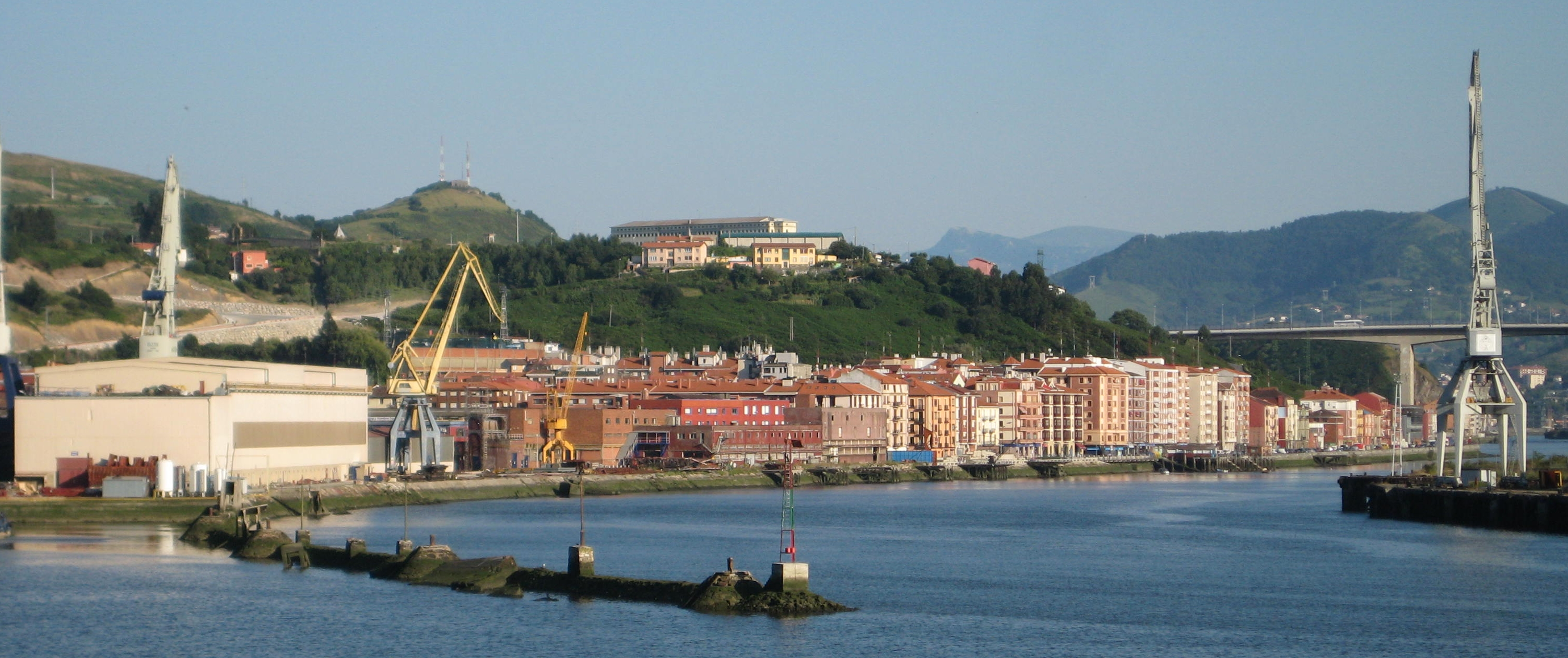 Ria of Ibaizabal-Nervión and neighbourhoods of Axpe, Altzaga and Arriaga, in Erandio, Biscay.